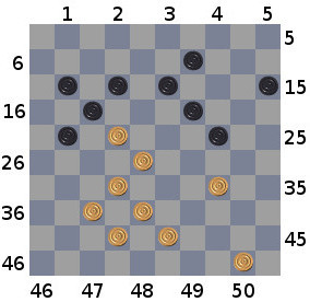 Hielslag checkers combination with field numbers